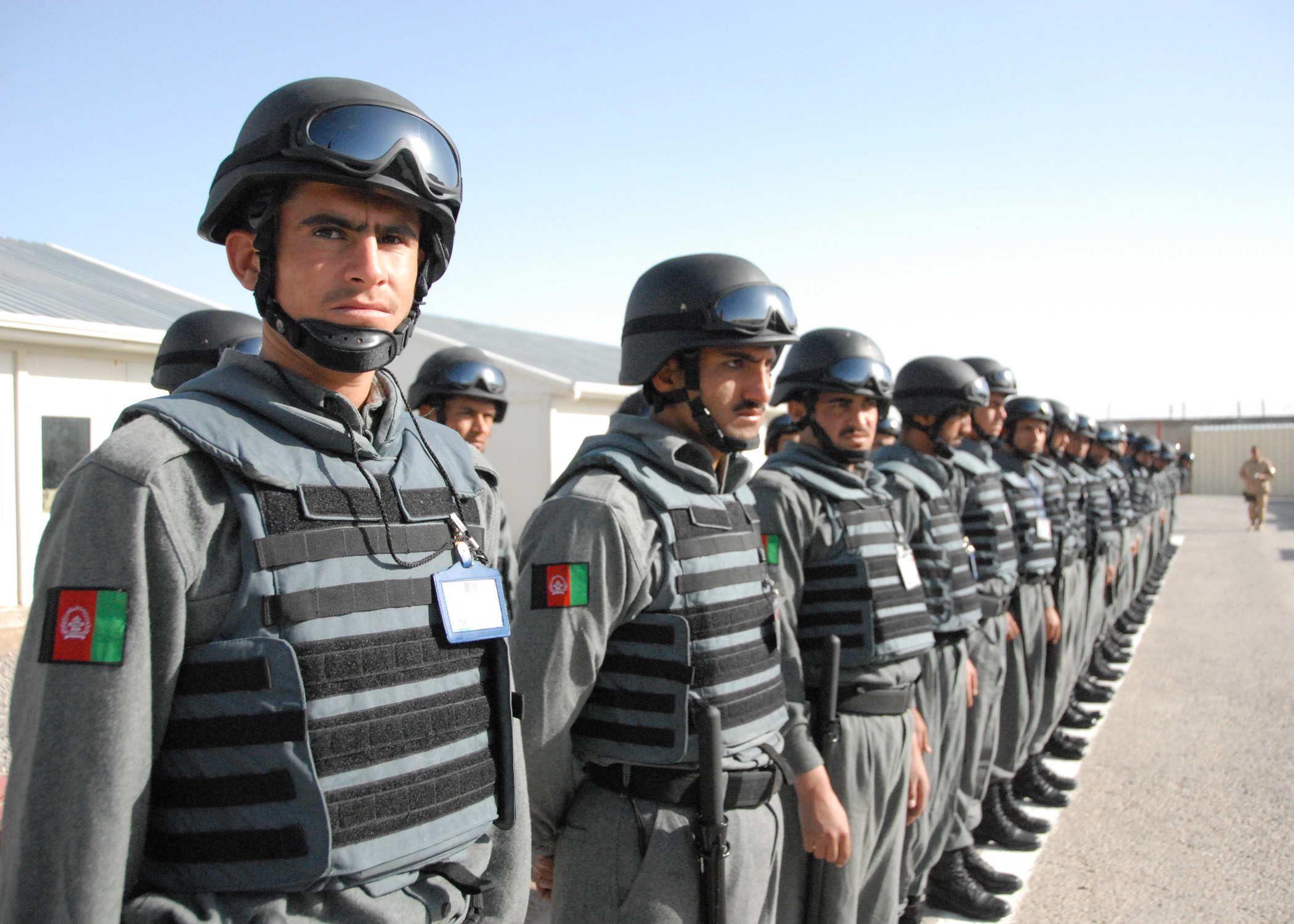 KANDAHAR, Afghanistan--Members of the honor guard for the Afghan National Police await the arrival of Kandahar Provincial Governor Turyalay Wisa for the ANP Region South Graduation ceremony at the Recruit Training Camp in Kandahar Province on Feb. 26, 2009. The ceremony marked the end of an eight-week training course that graduated 354 new members into the ANP. ISAF photo by U.S. Navy Petty Officer 2nd Class Aramis X. Ramirez (RELEASED)